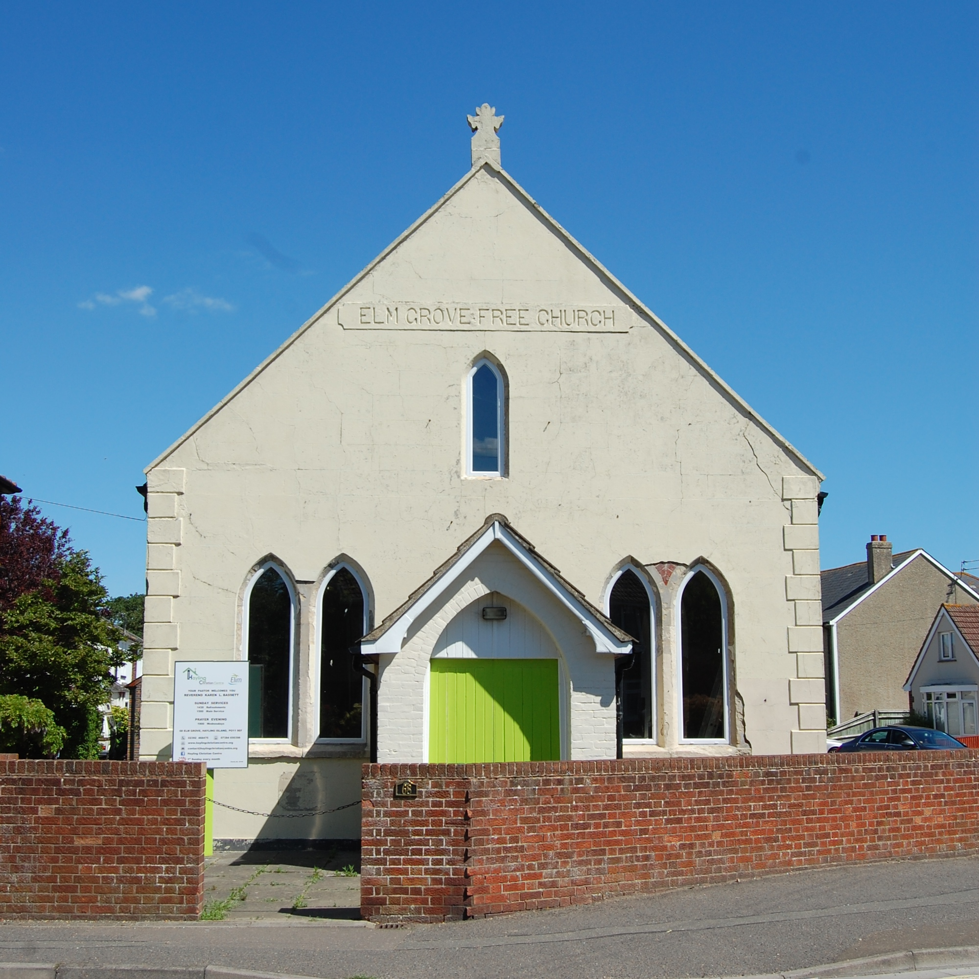 Hayling Christian Centre (former Elm Grove Free Church), Elm Grove, Hayling Island, Hampshire, England. Built and registered as a Gospel Mission Hall in 1897; now part of the Elim Pentecostal Church.